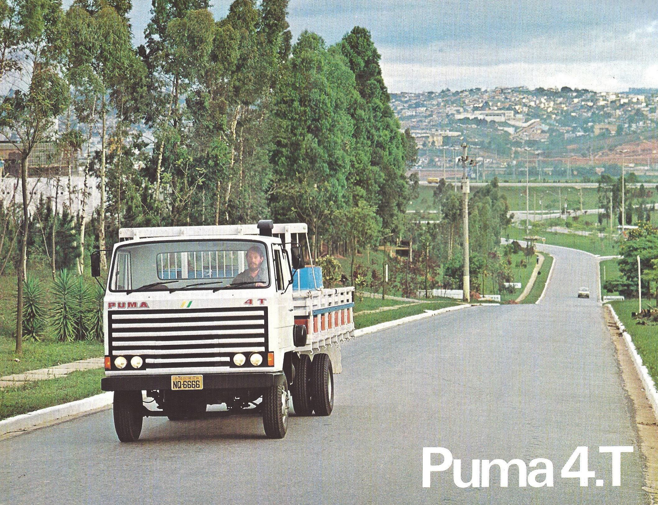 Made by the same Puma that built the VW based fiberglass sports cars.